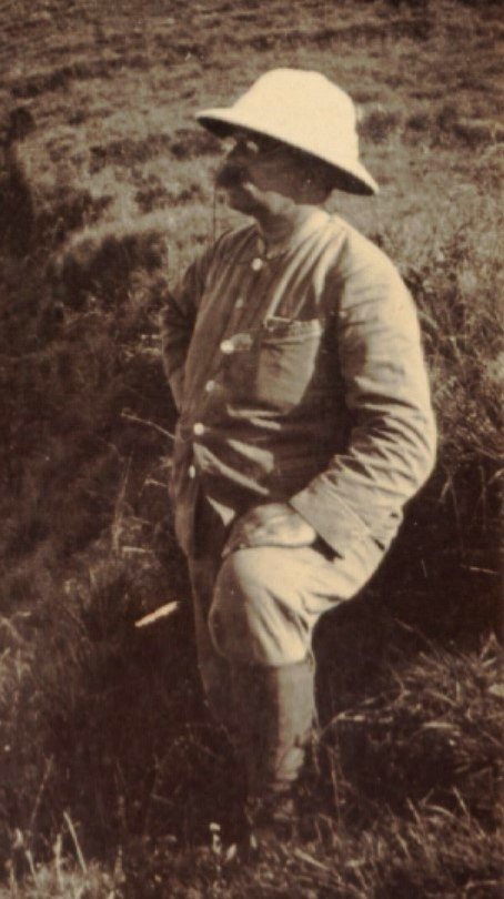 Photographer O. Kurkdjian on the edge of the Sand Sea (Lautan Pasir) in the Tengger Mountains. Cut out detail.